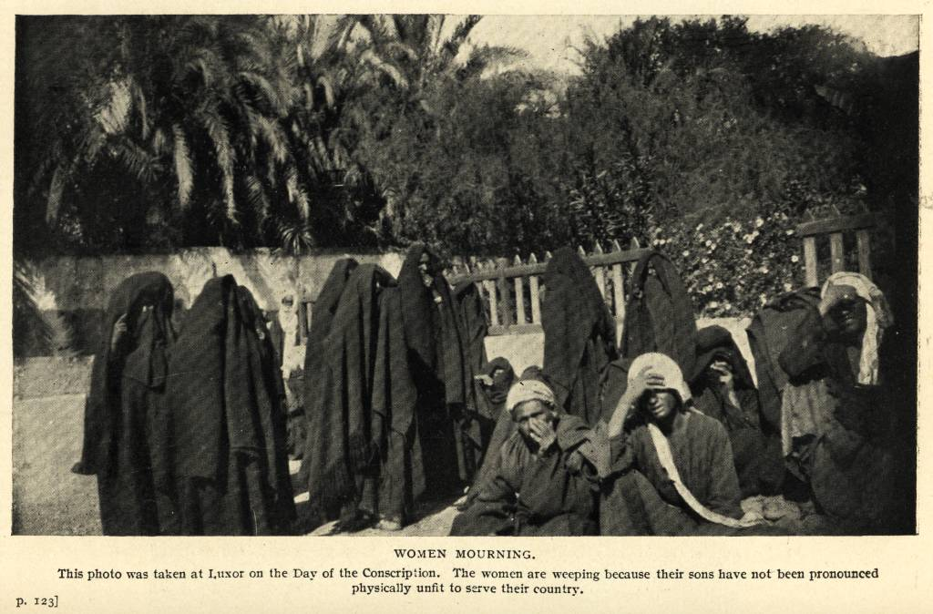 Several women many of whom are crying, standing and sitting in a courtyard.